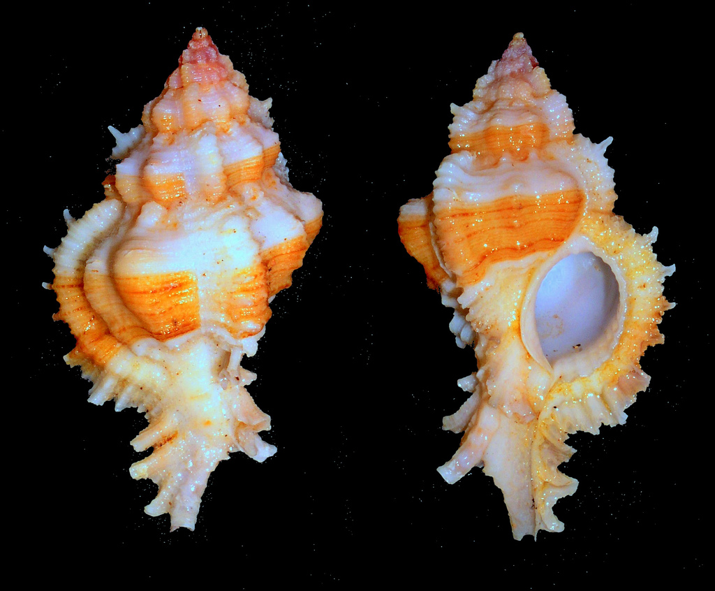 Chicomurex venustulus (Rehder & Wilson, 1975) (synonym = Chicoreus venustulus); Mindanao, Philippines